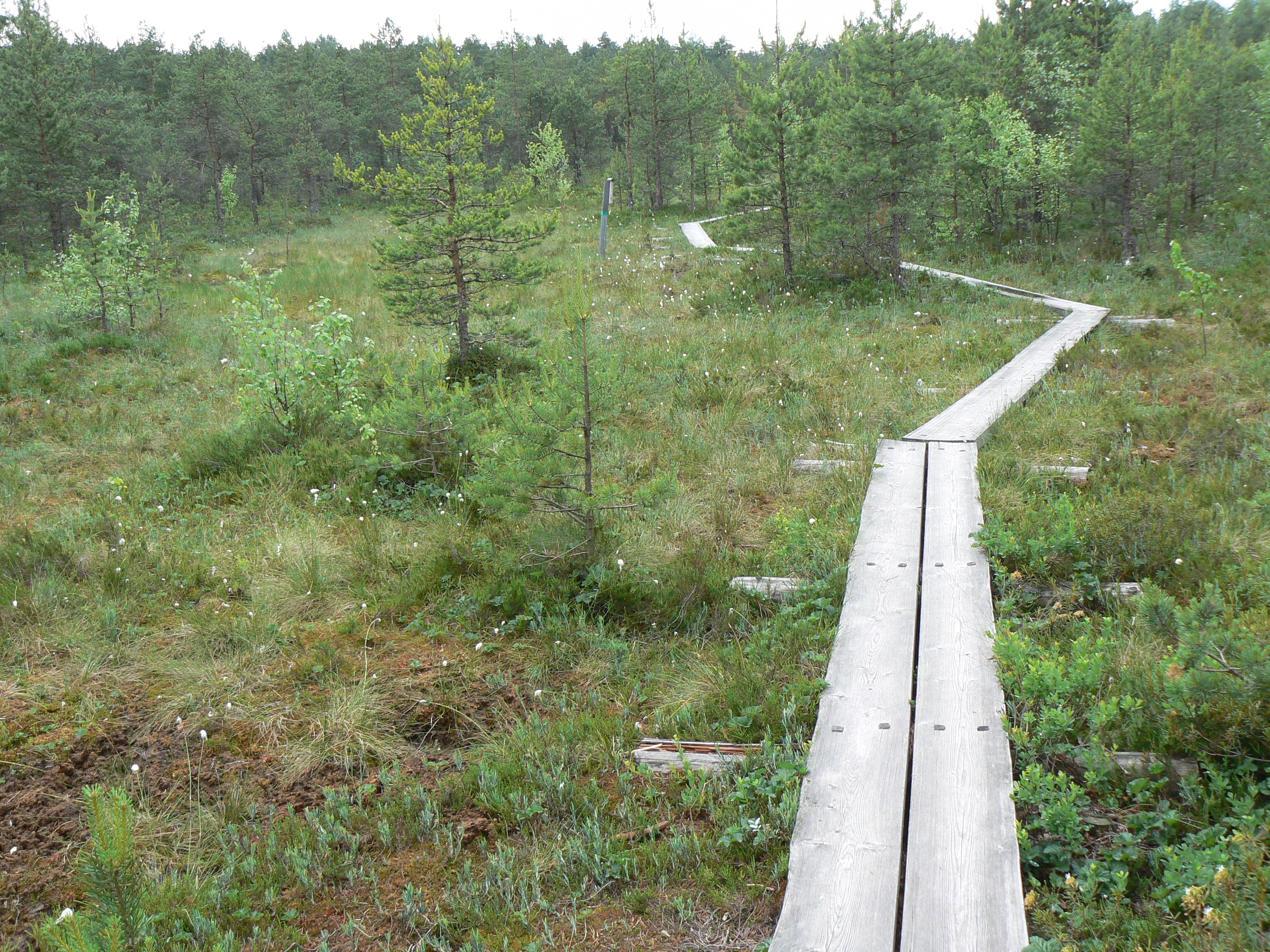 Slåttmossen swamp in Jakomäki, Helsinki, Finland